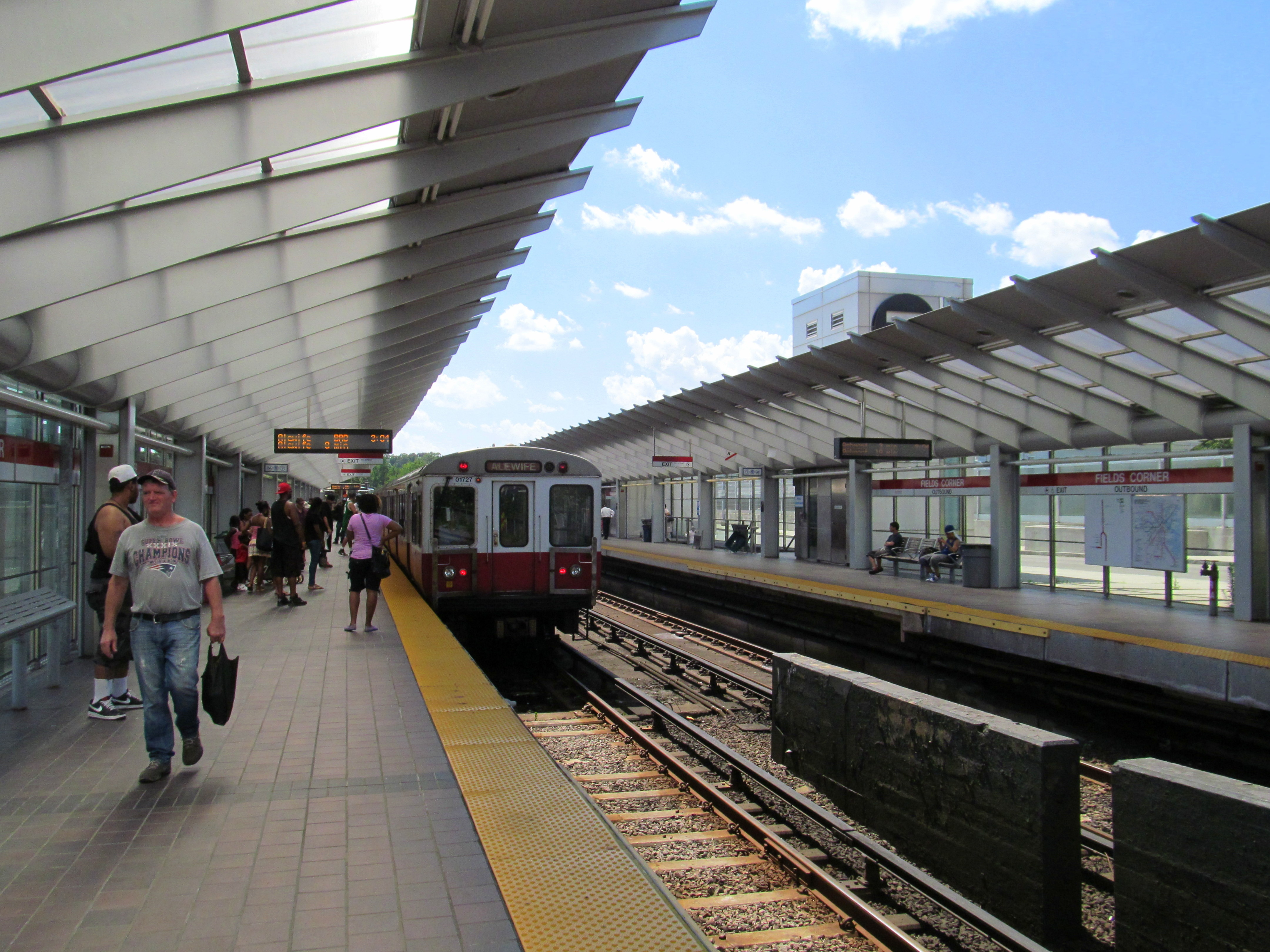 Inbound train at Fields Corner station in July 2013